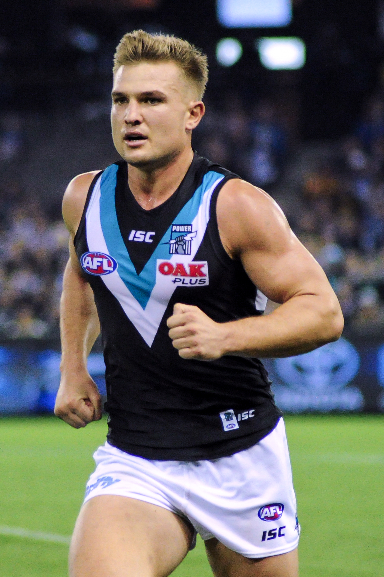 Ollie Wines during the AFL round six match between North Melbourne and Port Adelaide on Saturday, 28 April 2018 at Etihad Stadium in Melbourne, Victoria.